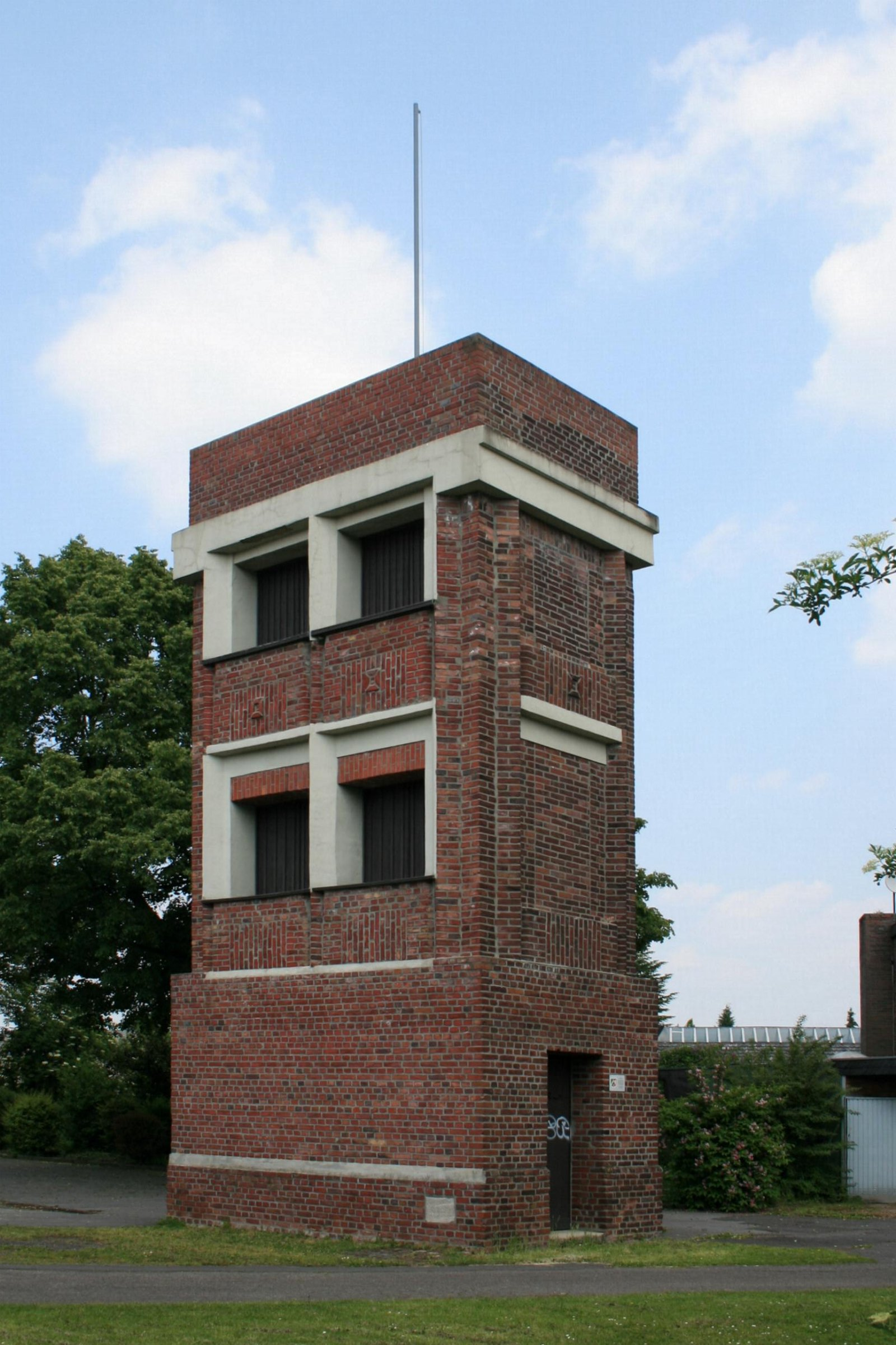 Cultural heritage monument No. A 048 in Mönchengladbach